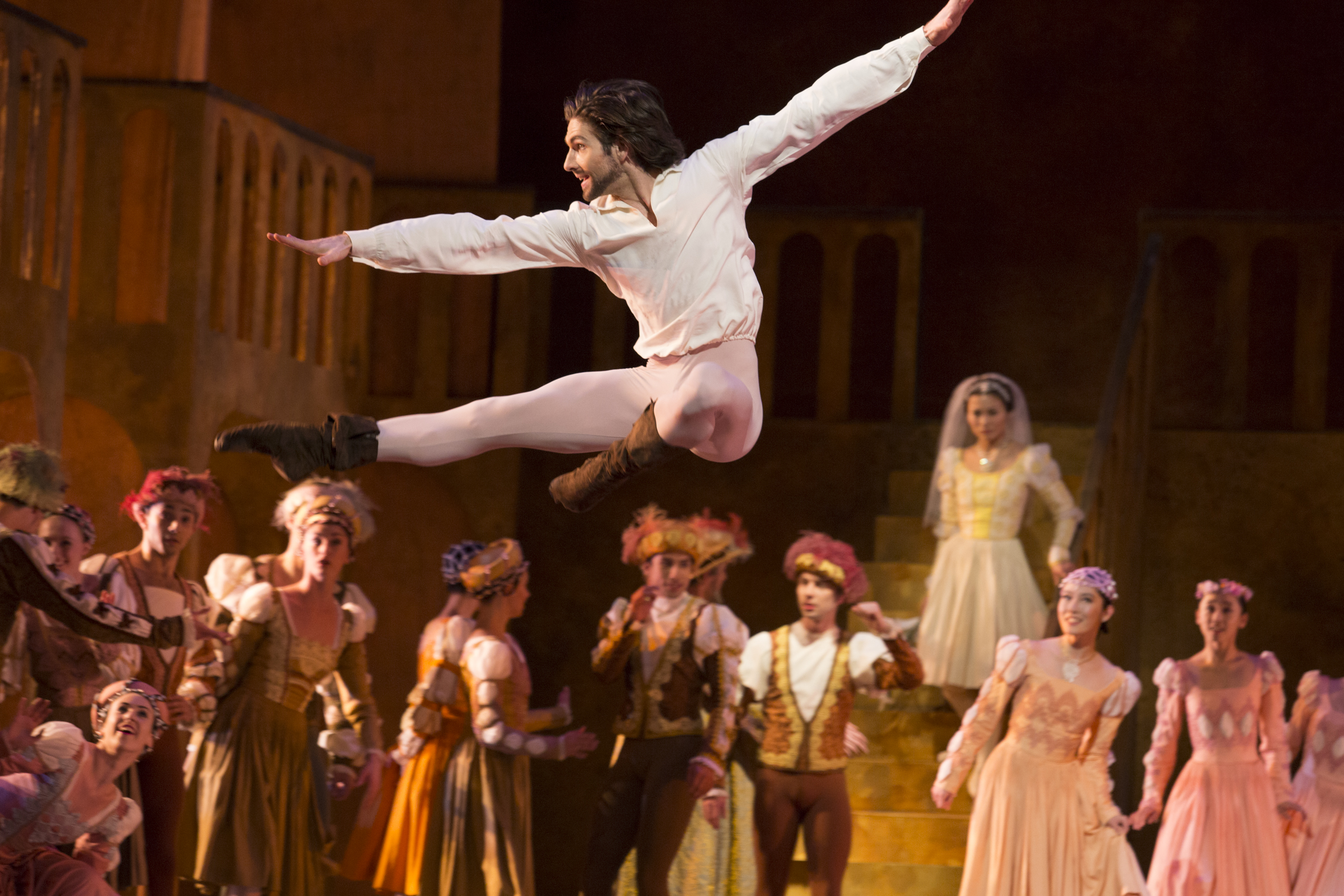 "The Taming of the Shrew" by John Cranko, Polish National Ballet, Vladimir Yaroshenko as Petruchio